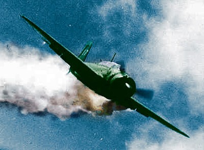 Yokosuka D4Y3 (Type 33) "Judy" in a suicide dive against the USS Essex (CV-9), 1256 hours, November 25, 1944. Flaps are extended, the burning non-self-sealing port wing tank of the Yokosuka "Suisei" is trailing smoke.